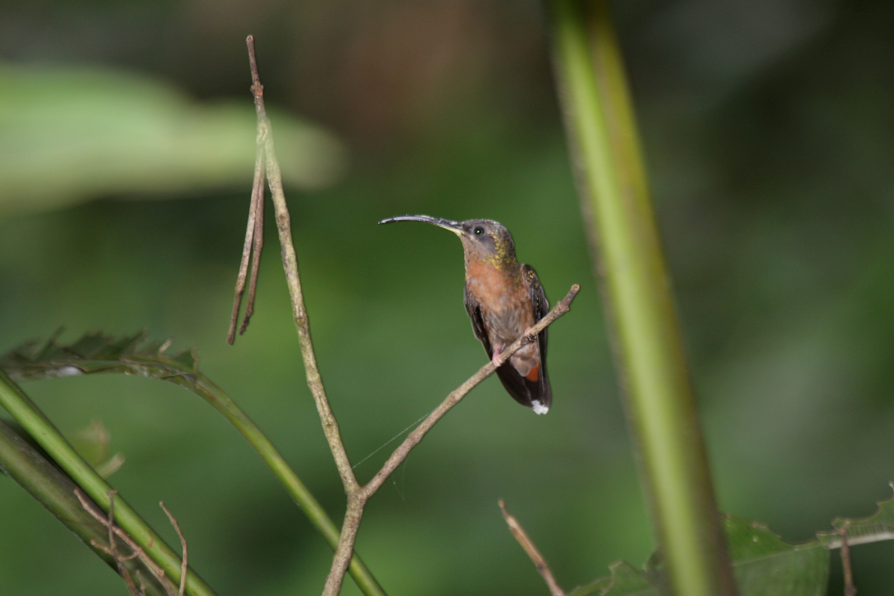 Rufous-breasted Hermit (Glaucis hirsutus)